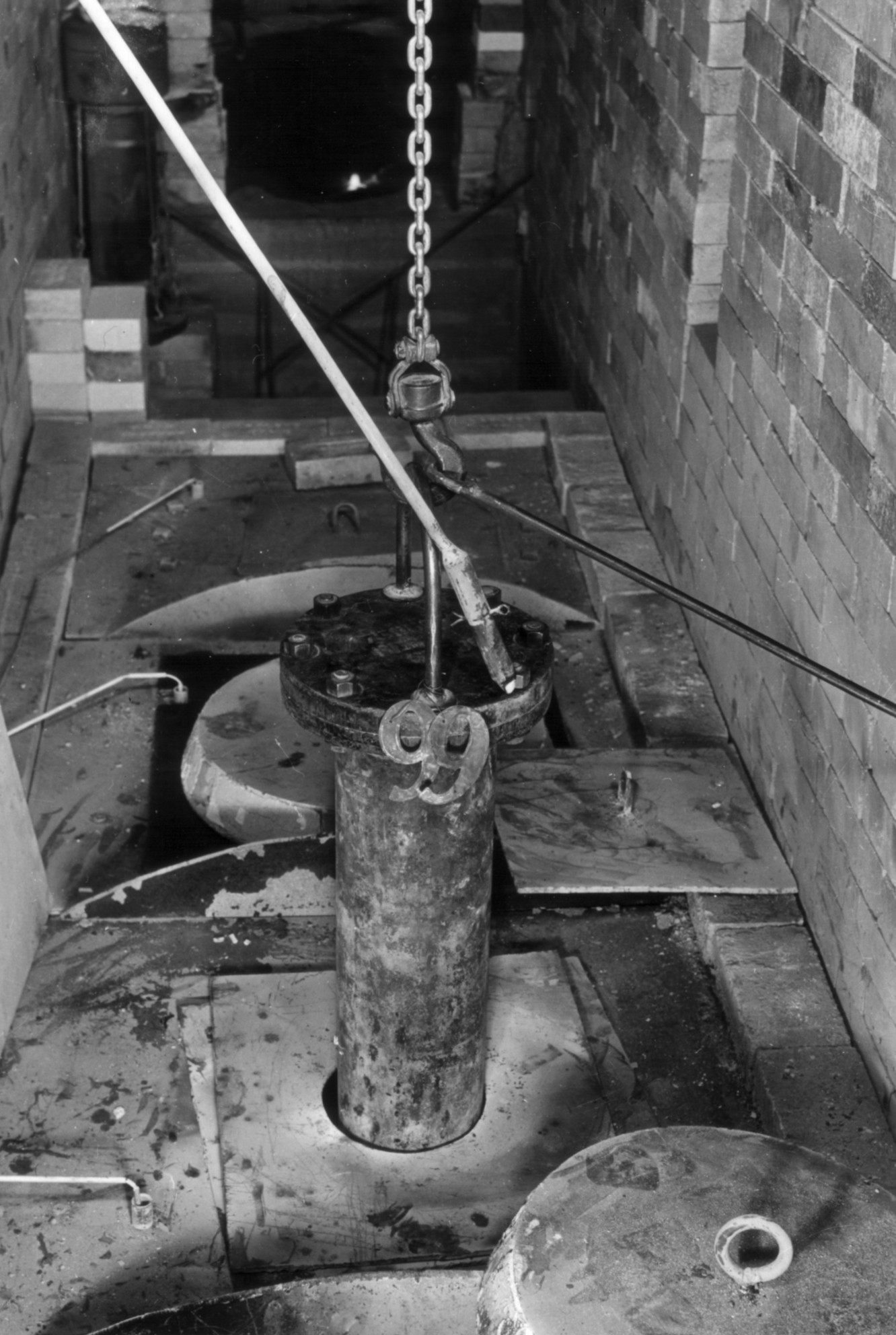 A pressure vessel being lowered into a furnace during the Manhattan Project for reduction to uranium metal. Uranium halide and sacrificial metal are in the vessel. This is part of the Ames process. Attribution: The Ames Laboratory, USDOE (